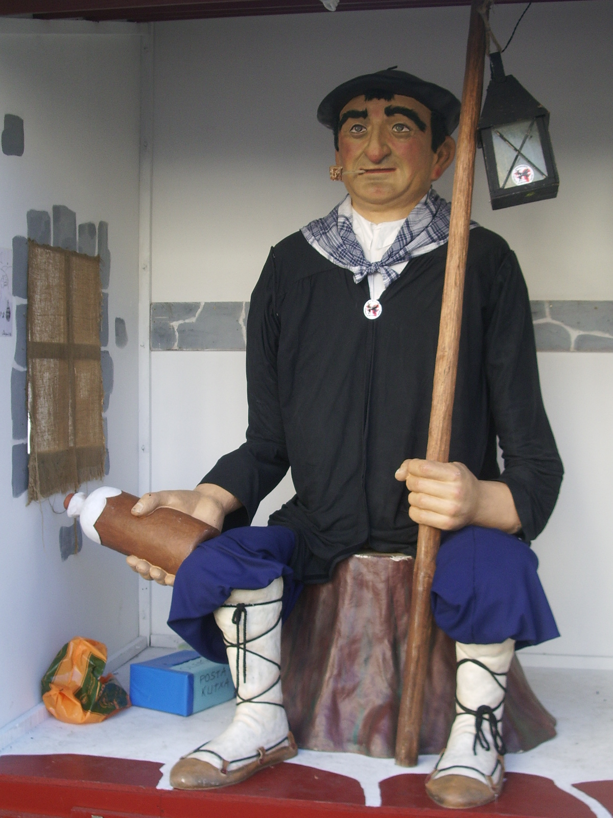 Olentzero, Basque Christmas character, Hendaia, Labourd